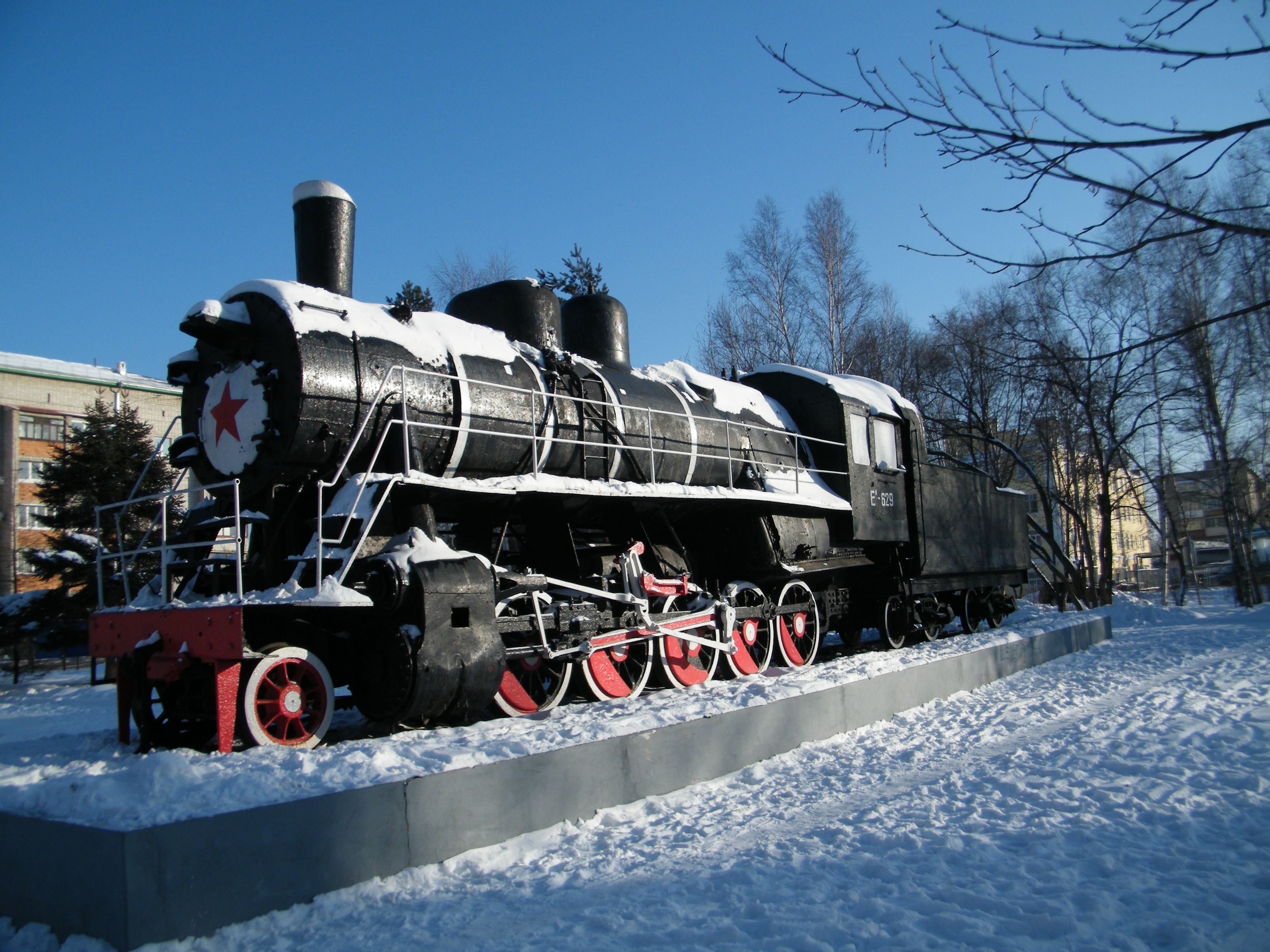 Паровоз Ел-629 на станции Уссурийск